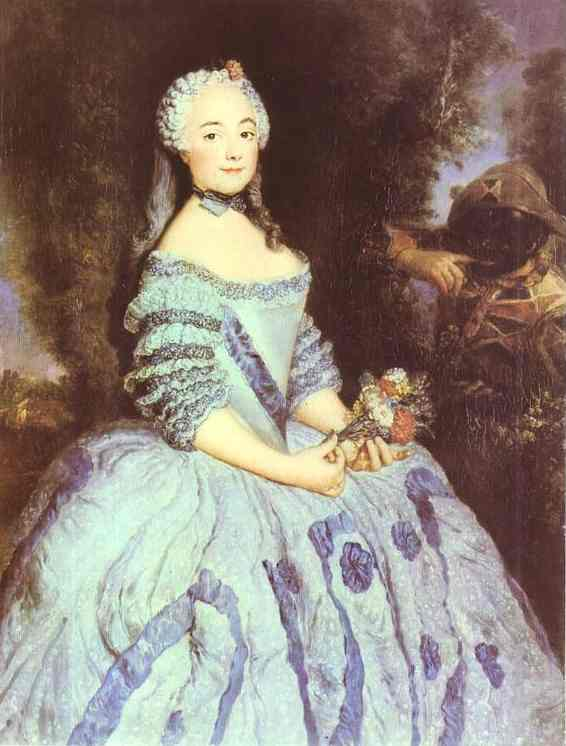 Portrait of the Actress Babette Cochois (c.1725-1780), later Marquise d’Argens